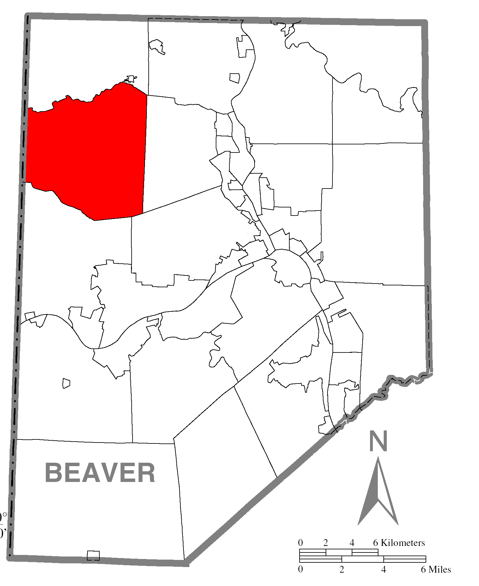 A map of Beaver County showing South Beaver Township, Pennsylvania (alternate) highlighted on the map.